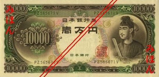 10,000 Japanese Yen bill (Series C)